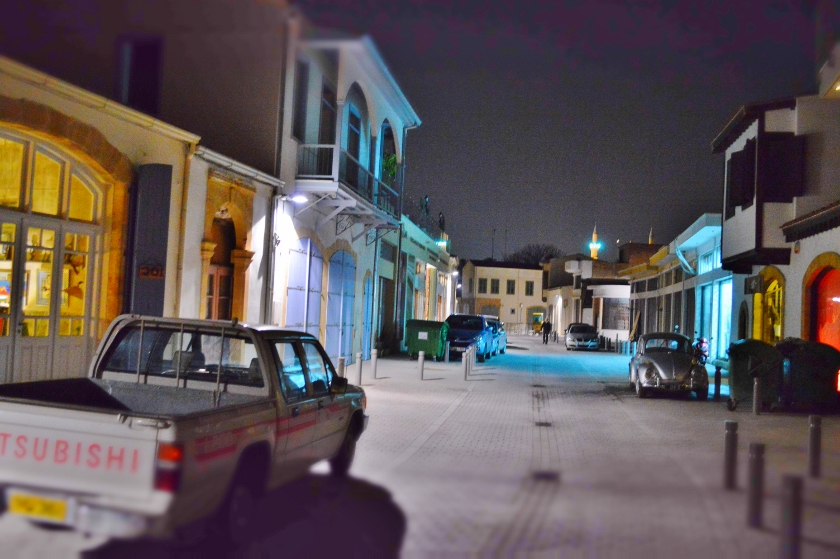 Ermou street Nicosia by night Nicosia Republic of Cyprus